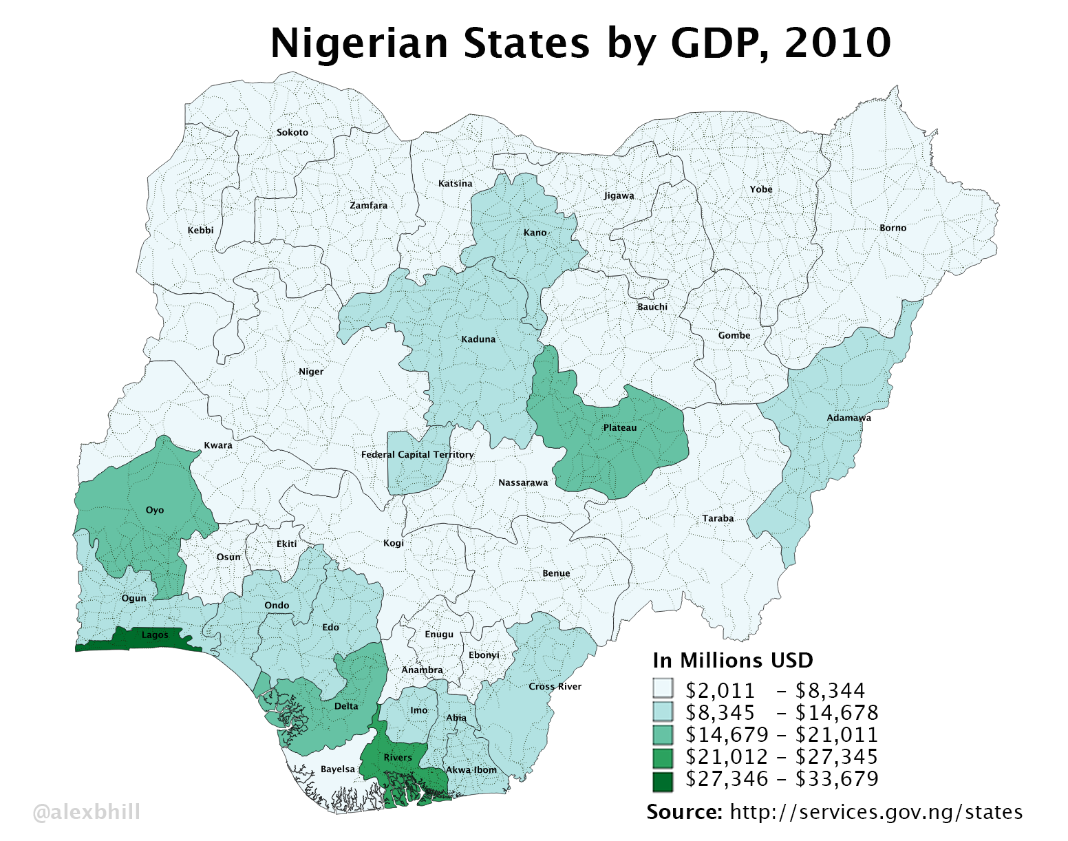 Updated map of GDP by Nigerian States based on 2010 data from